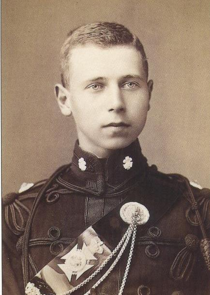 Alfred "Affie", Heir to Duchy of Saxe-Coburg and Gotha